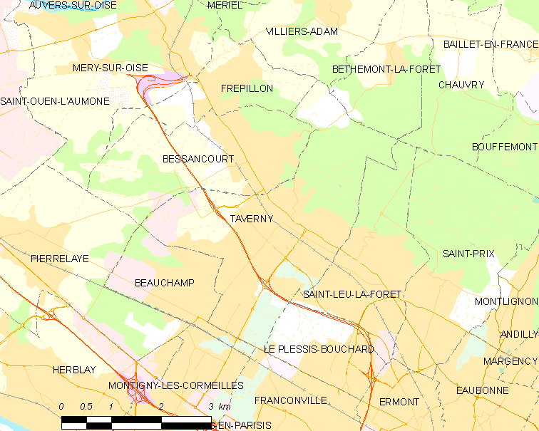 Map of French municipality Taverny